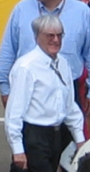 Bernie Ecclestone, Hungaroring 2007